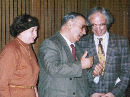 Nikoghos Tahmizian during the book signing for his book "Komitas"